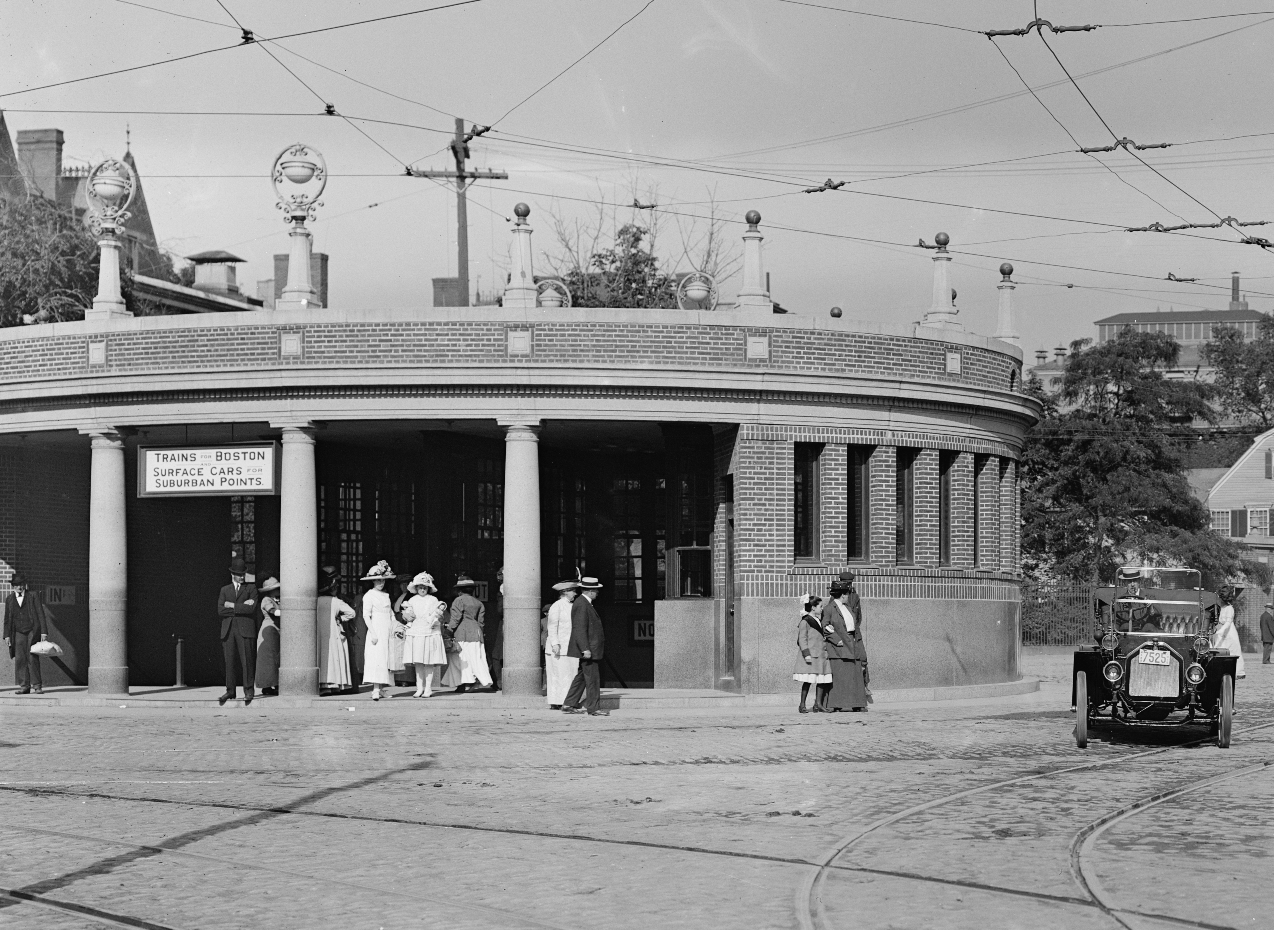 The "pillbox" headhouse to Harvard station in the 1910s